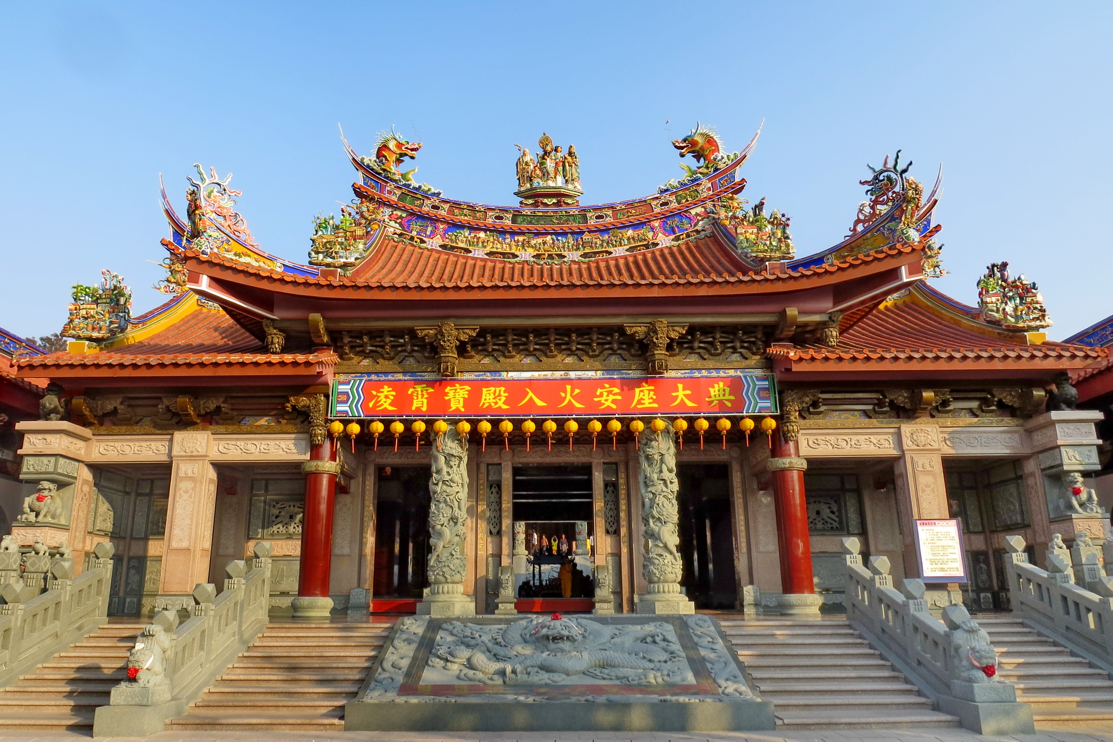 Jade Emperor Shrine of the Nankunshen Temple, Taiwan.